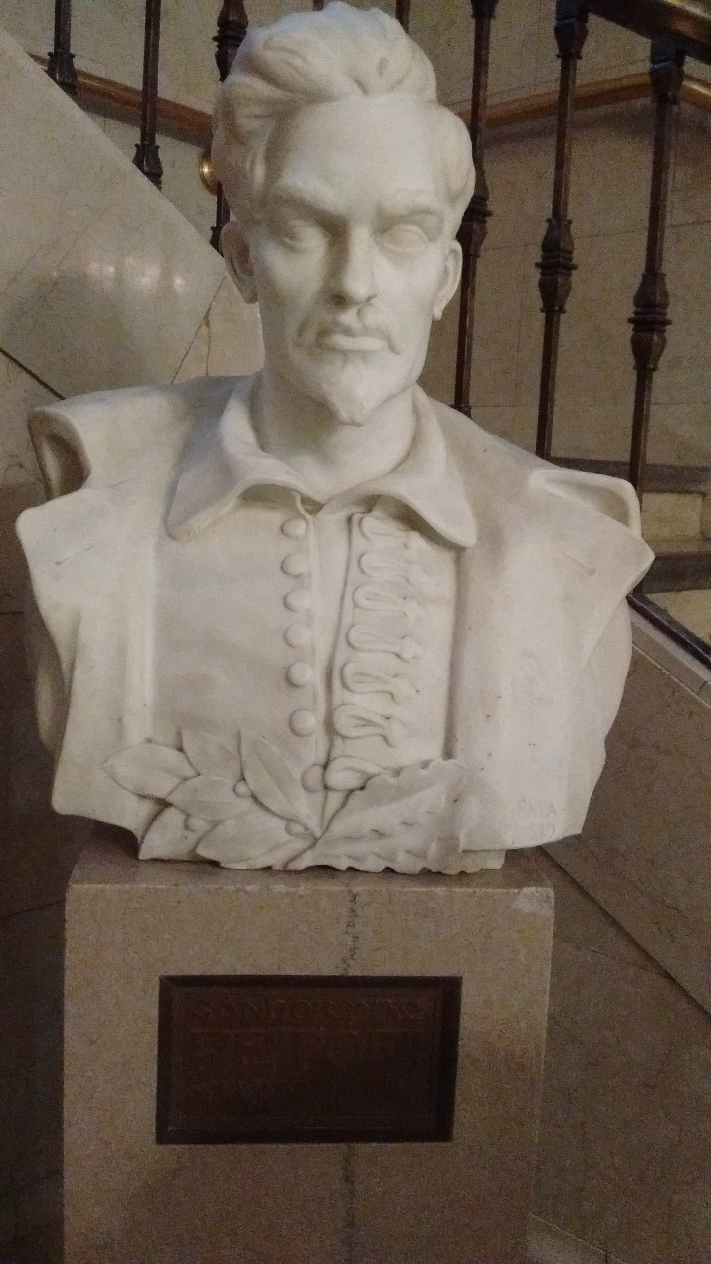 The Bust of Hungarian Poet Petofi Sandor at Cleveland Public Library